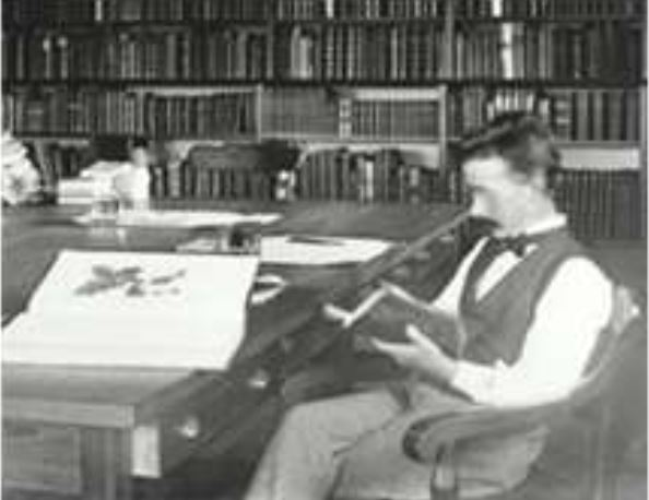 Alfred Rehder in the library of the Arnold Arboretum in 1898, shortly after his arrival in the United States